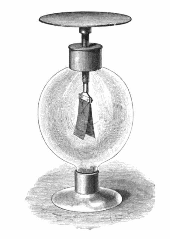 Drawing of a gold-leaf electroscope from around 1880s. This is an early electric charge detecting instrument. When an electrically charged object is touched to the brass top terminal, the charge is conducted to the delicate gold leaves. Since they have the same polarity charge they repel each other, and spread apart in a "V" shape.